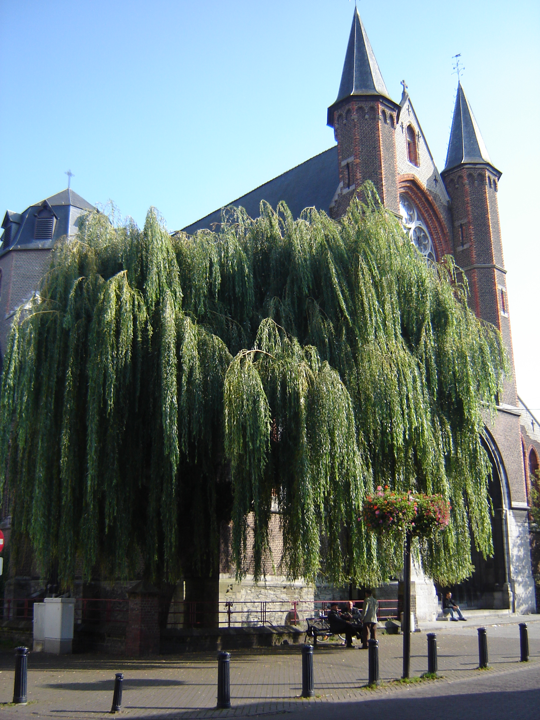 Church of Saint Joseph in Gent. Gent, East Flanders, Belgium.